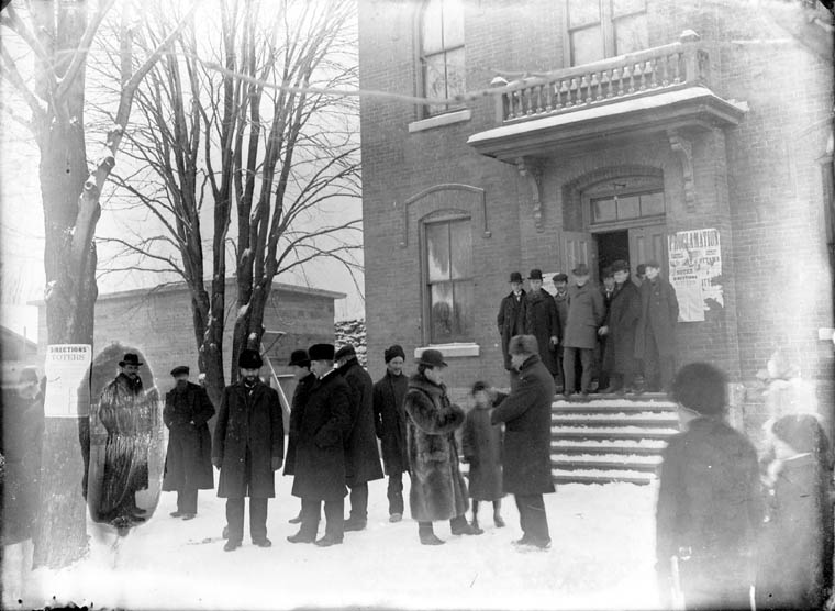 From the Library and Archives of Canada image description page Reference Numbers: Accession: 1980-232 Reproduction: PA-132316 Use Reproduction Restrictions on use/reproduction: Nil Copyright: expired Credit: Photograph attributed to James Ballantyne/Library and Archives Canada/PA-132316